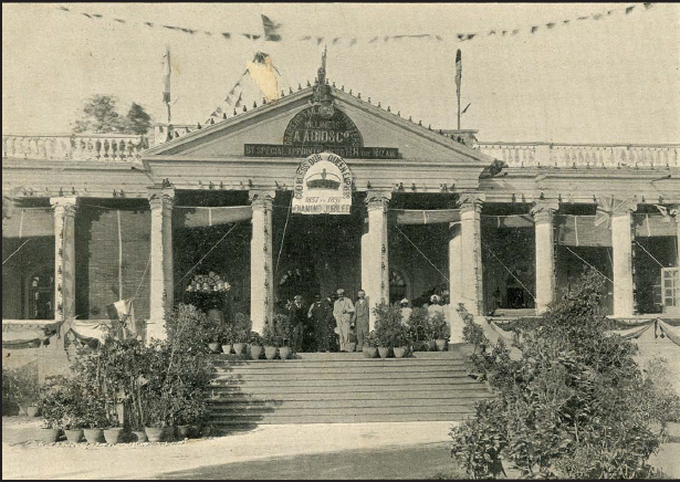 Department store located in Abid Circle, Hyderabad circa 1897